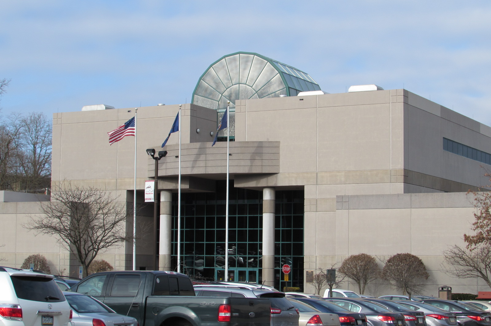 The North Campus of the Community College of Allegheny County, Perry Highway, Pittsburgh North Hills (McCandless Area). The campus is made up of a single building and a lower and upper parking lot.